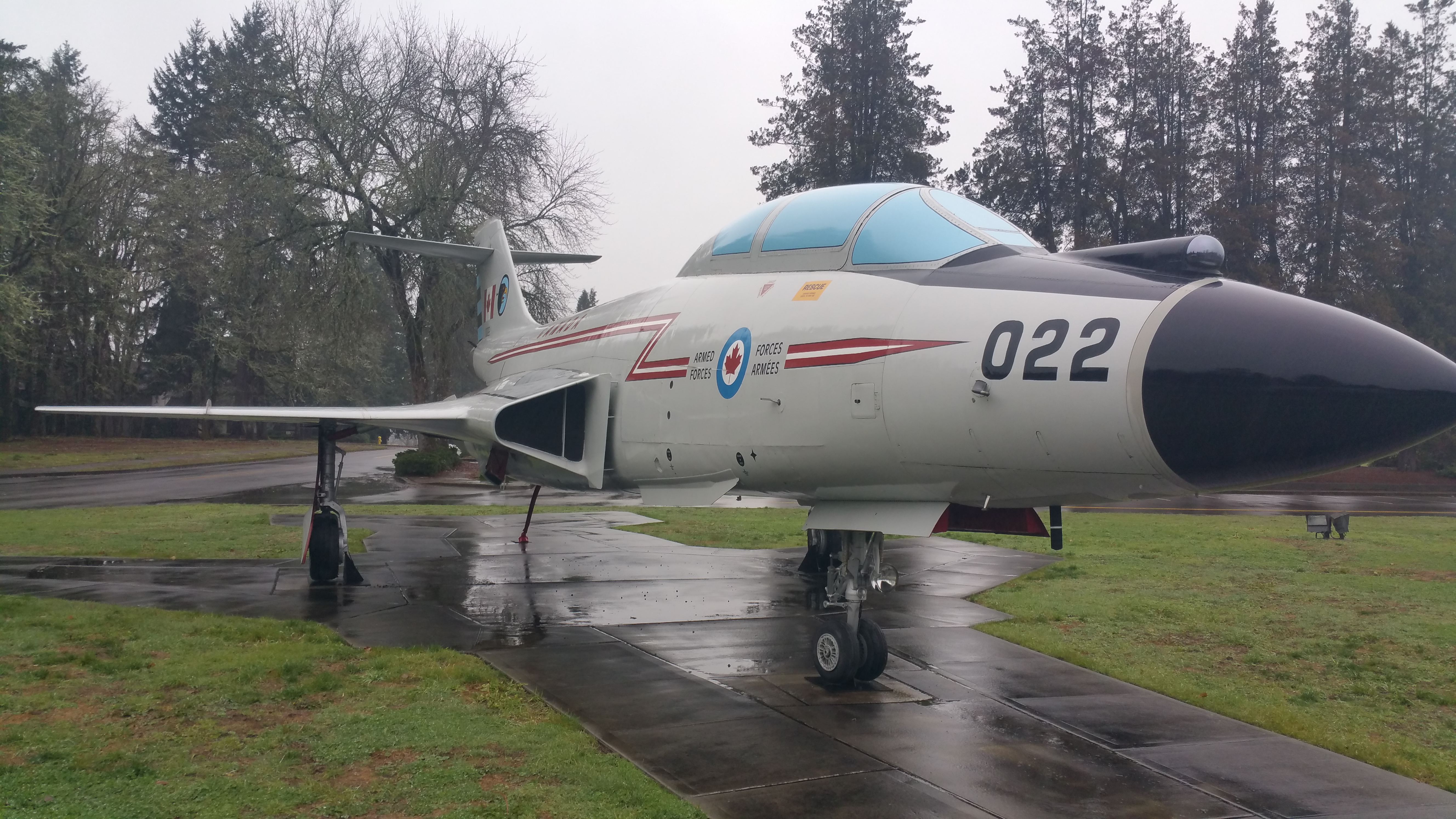 McDonnell CF-101F Voodoo at McChord Air Museum